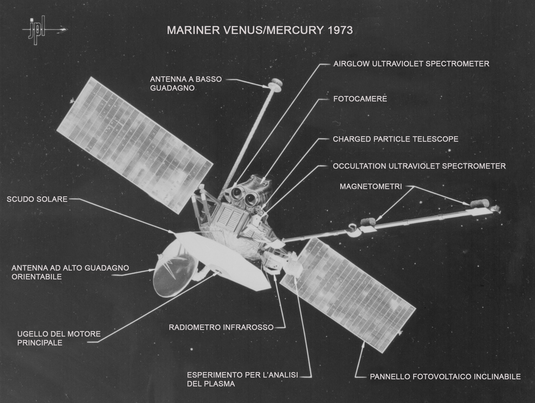 Mariner 10 Diagram On November 3, 1973, the Mariner Venus/Mercury 1973 spacecraft - also known as Mariner 10 - was launched from Kennedy Space Center. It was the first spacecraft designed to use gravity assist. Three months after launch it flew by Venus, changed speed and trajectory, then crossed Mercury's orbit in March 1974. This photo identifies various parts of the spacecraft and the science instruments, which were used to study the atmospheric, surface, and physical characteristics of Venus and Mercury. This was the sixth in the series of Mariner spacecraft that explored the inner planets beginning in 1962.